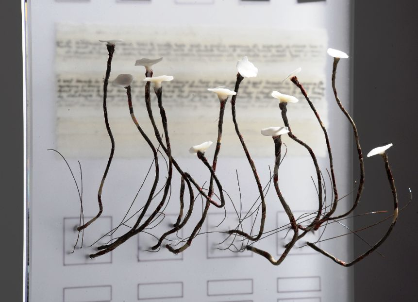 K7 Kimono silk